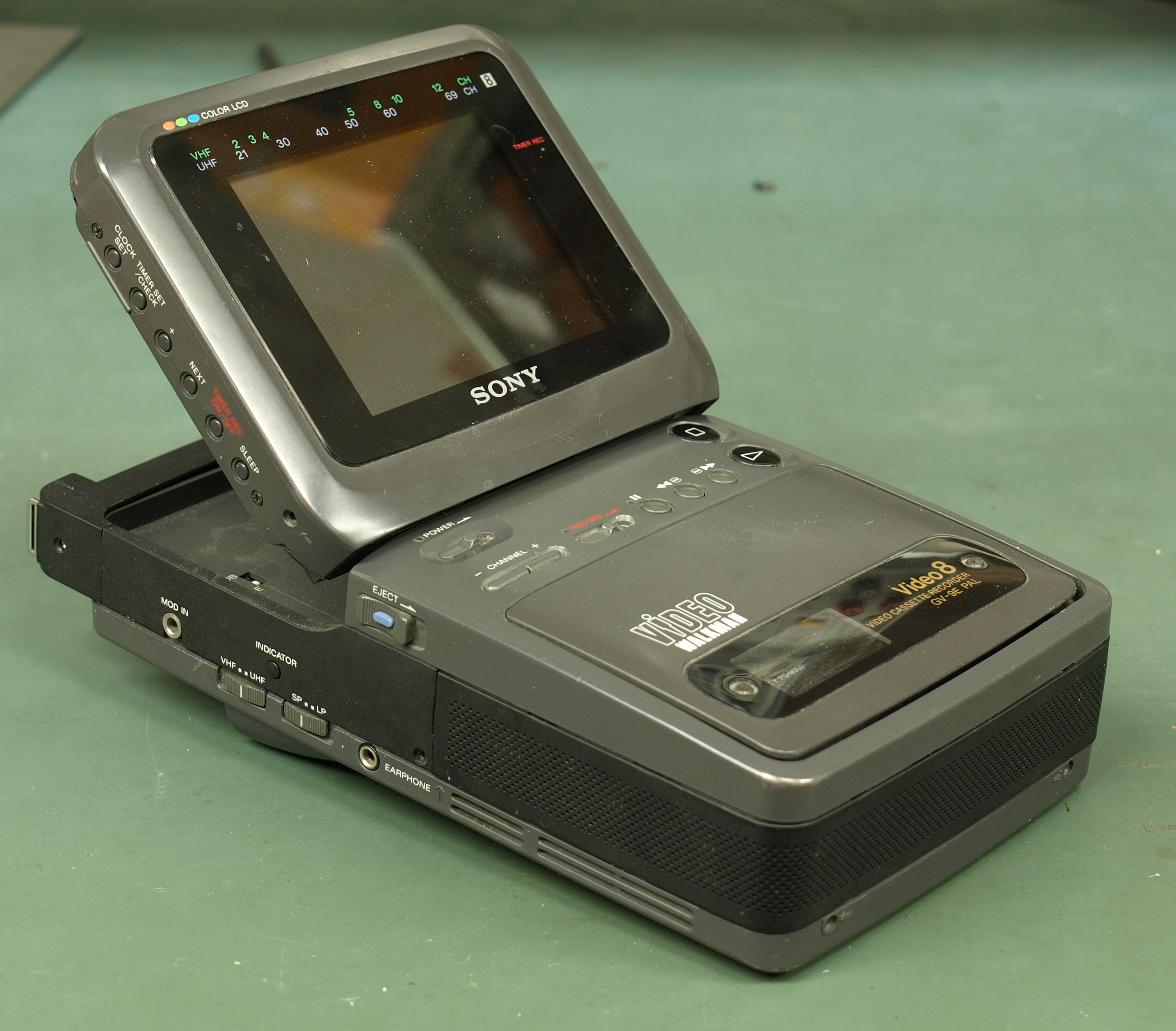 Sony GV-9E Video Walkman Teardown